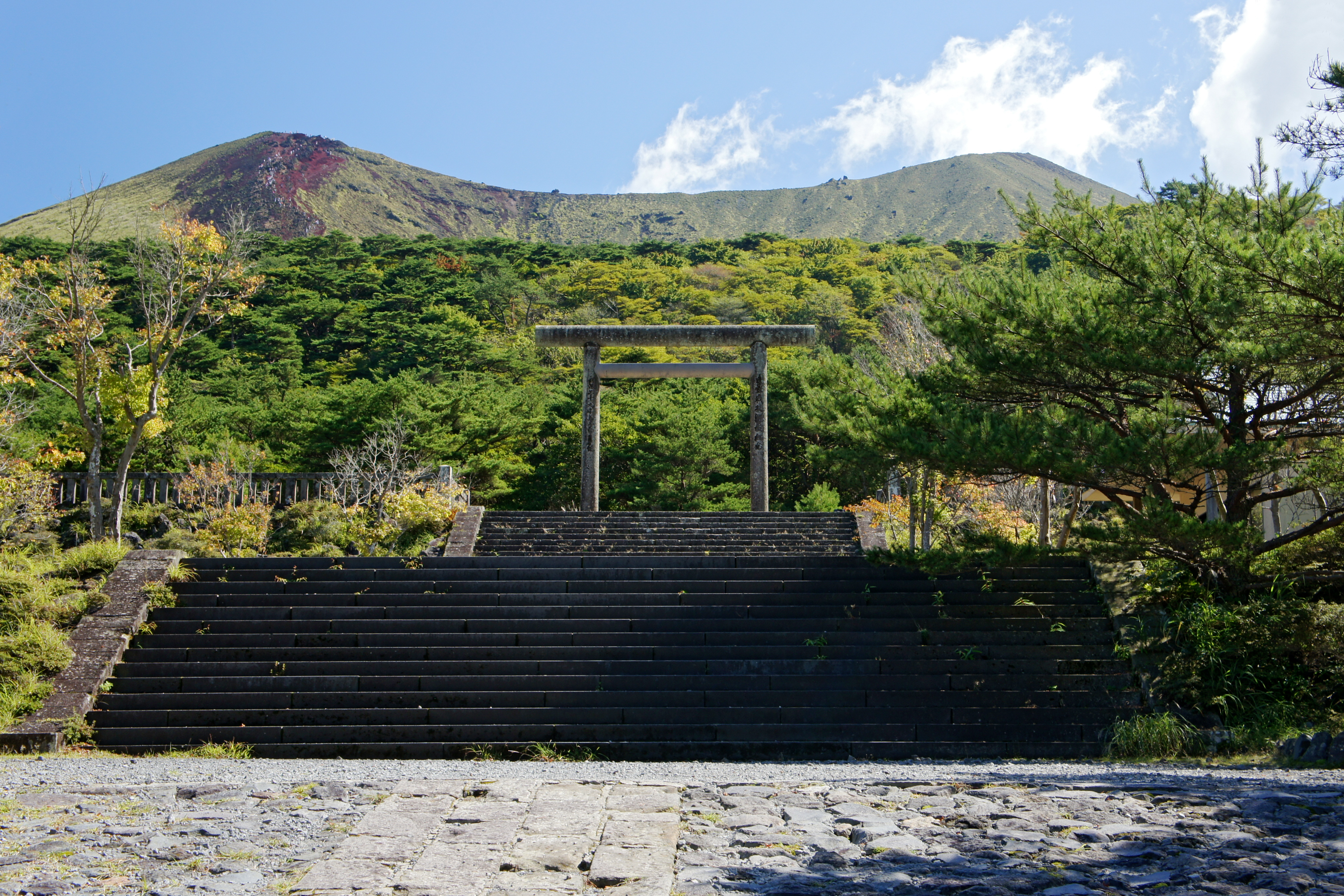 Takachiho-gawara Furumiya-ato Shrine in Kirishima, Kagoshima prefecture, Japan. Here is a Sacred ground of the descent to earth of Ninigi-no-Mikoto (the grandson of Amaterasu).